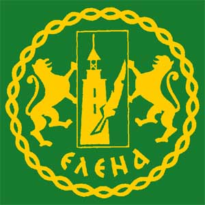 Coat of arms of Elena, Bulgaria